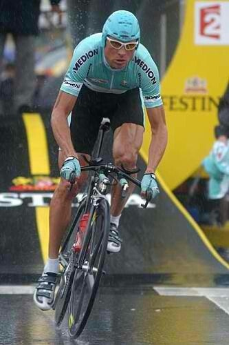 Jan Ullrich, Tour de France 2003. Second time trial.